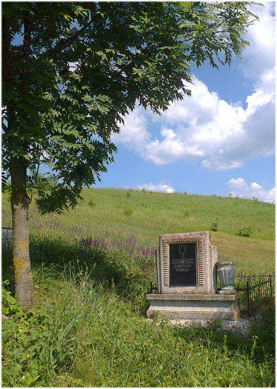 Tomb of priest Ödön Nagy (1914-1995)